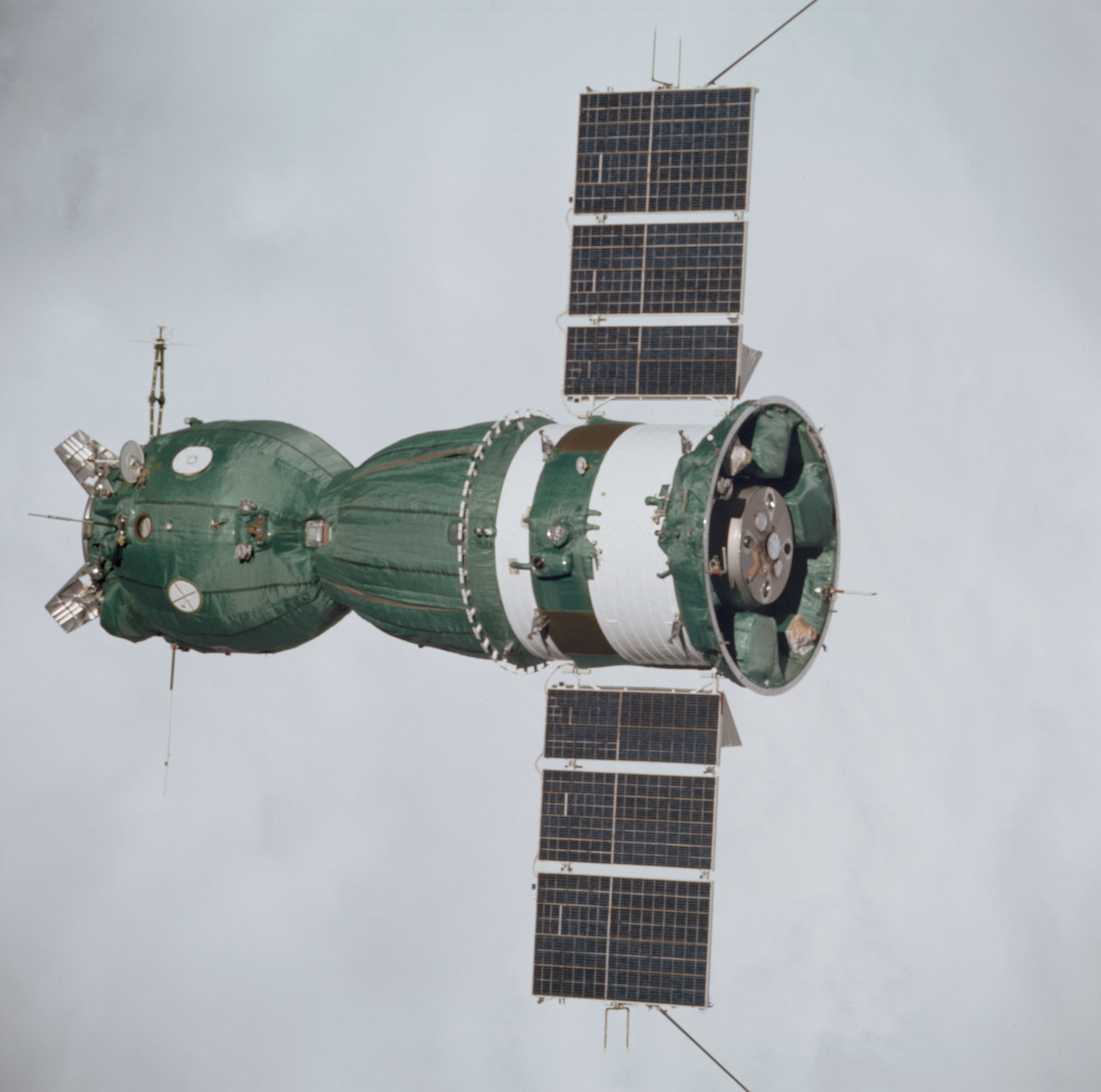 A view of the Soyuz 19 spacecraft as seen from the Apollo CSM flying the Apollo Soyuz Test Project in July 1975. Soyuz 19 was one of only two Soyuz 7K-TM spacecraft produced, with the other flying, in modified form, during Soyuz 22.